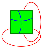 Topological proof of the Jordan curve theorem (1).